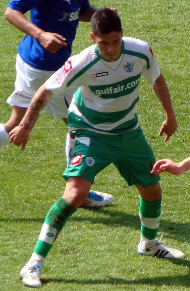 Alejandro Faurlín, cropped from 23/04/11 Cardiff V QPR, Championship, Cardiff City Stadium, Cardiff, Wales